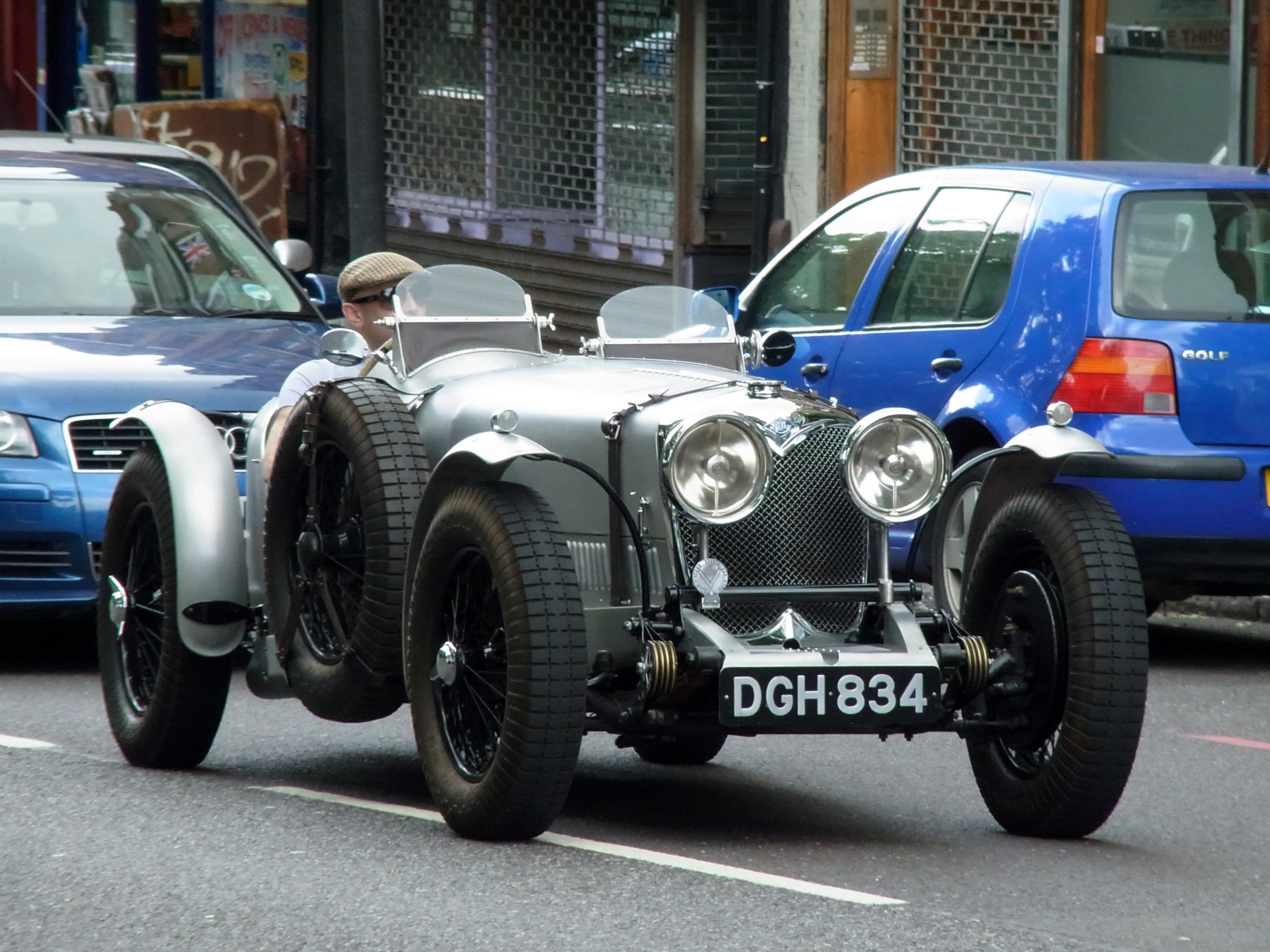 Classic Car